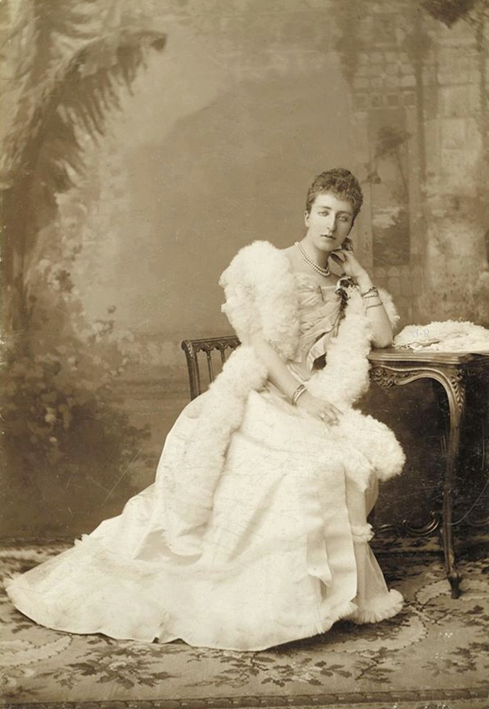 Princess Henriette of Belgium, Duchess of Vendôme